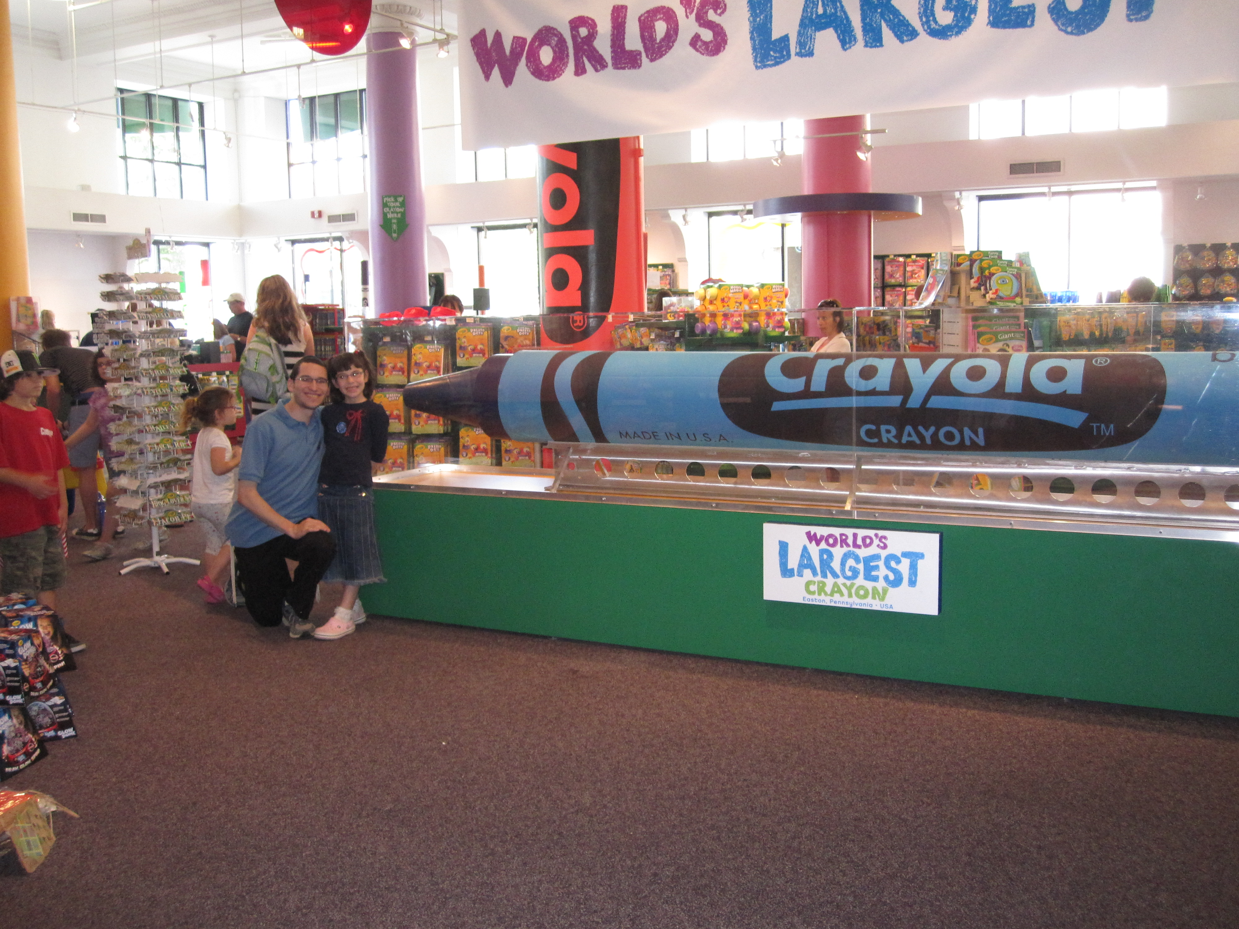 World's largest crayon at the Crayola gift shop in Easton, Pennsylvania.